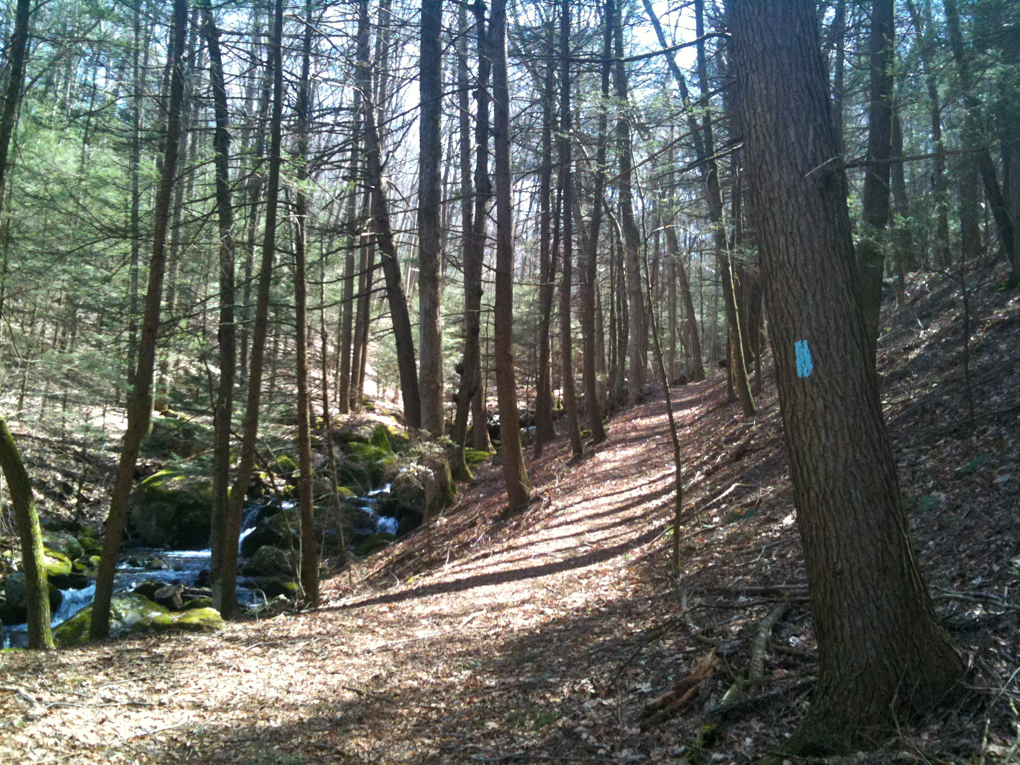 Round Hill Brook, Webb Mountain Park, Paugussett Trail, Monroe, CT.